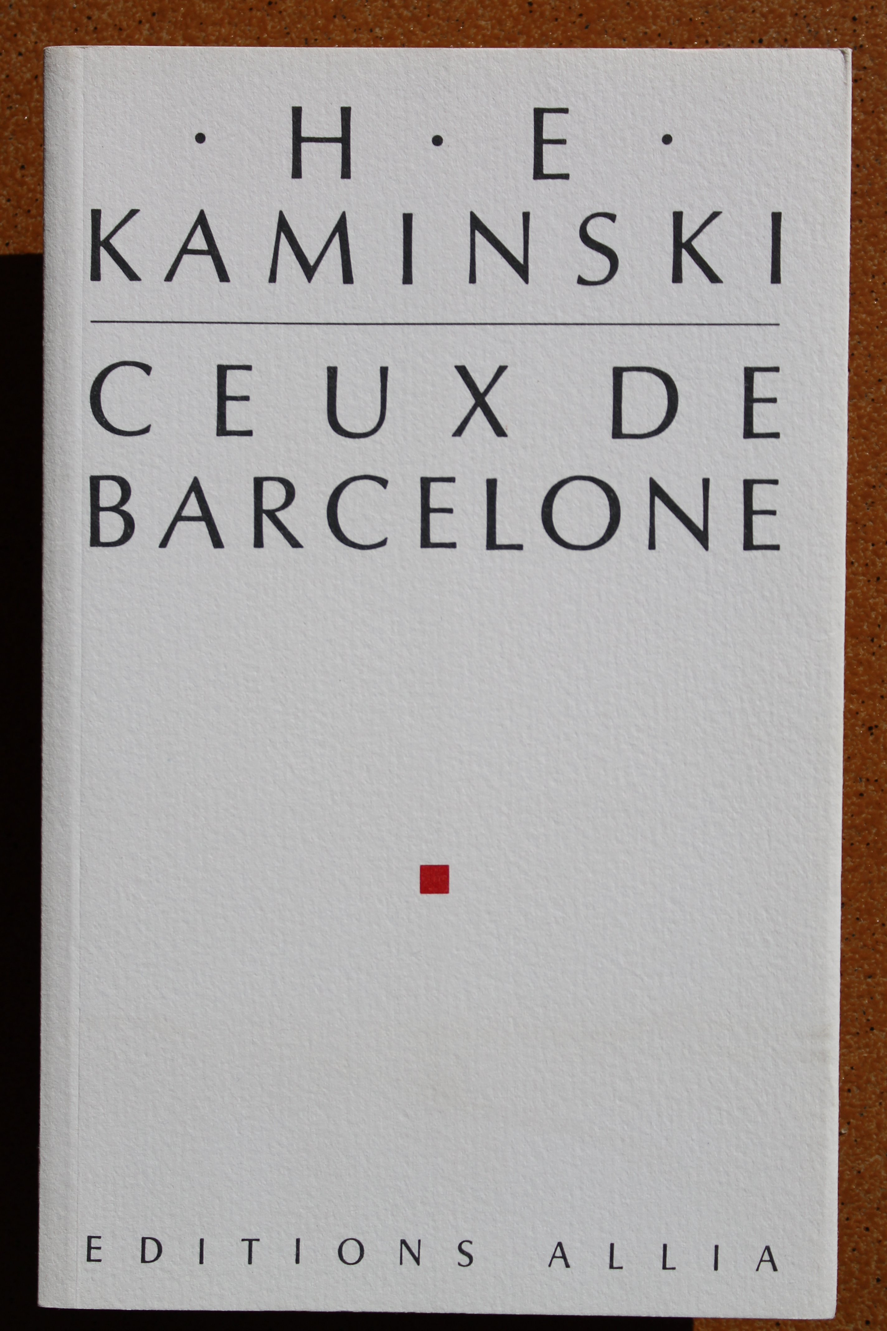 H.-E. Kaminski book